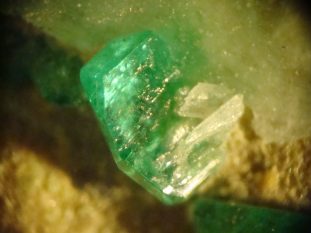 A single tabular almost perfect light green Bellingerite (nearly 2 mm.) with a diminute Gypsum xx beside, gently poached on matrix. The typical striations of this specie may be seen along the xx, and according to the reflections of bulb lightening. From Chuquicamata pit, Chuquicamata District, El Loa Province, Antofagasta Region, Chile.